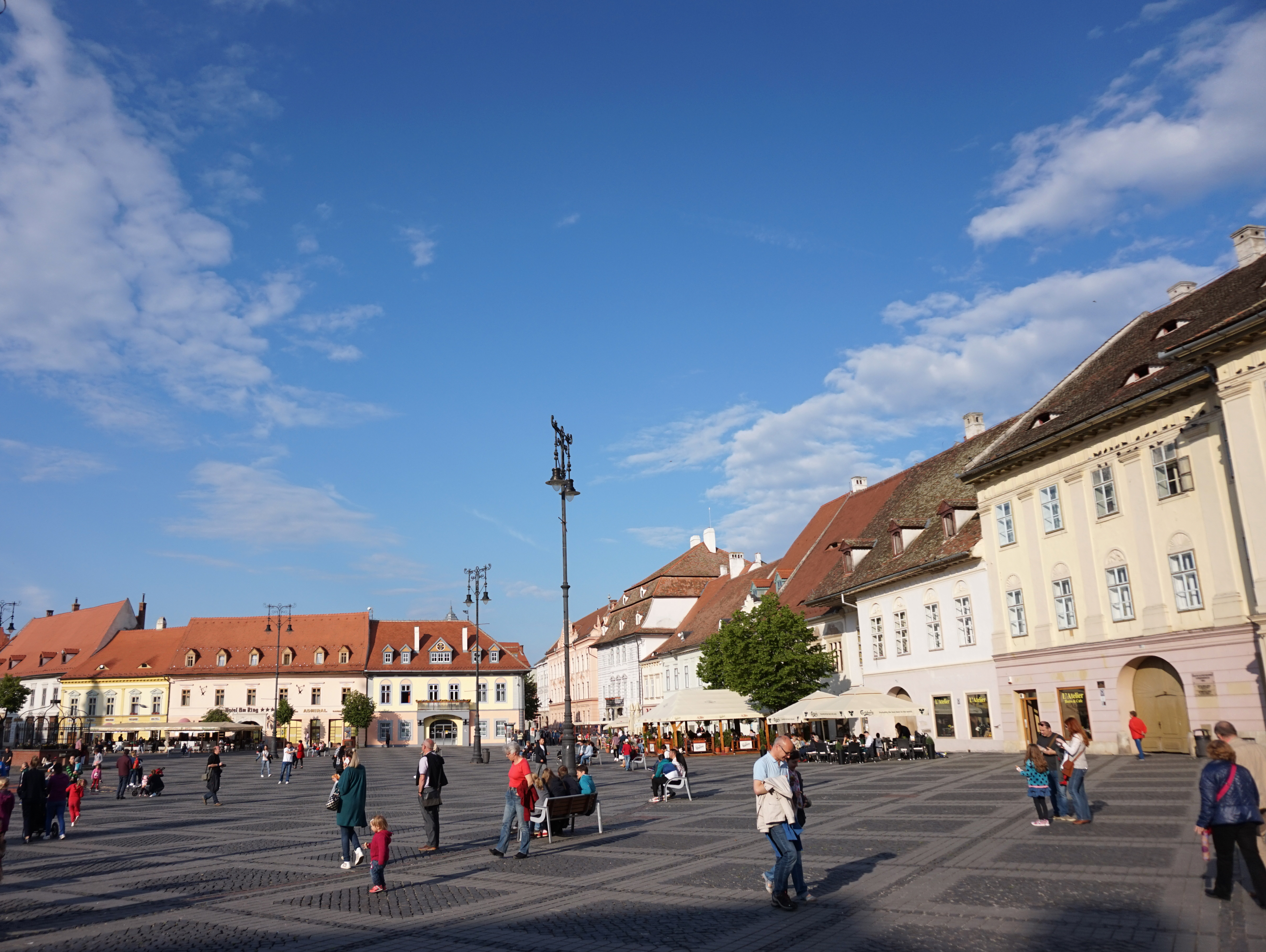 The square Piața Mare, Sibiu. This photograph was taken with a Sony Alpha a5000.